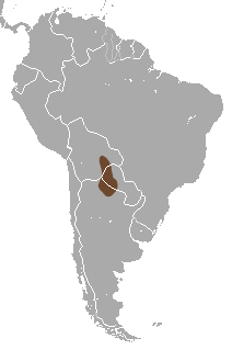 Greater Fairy Armadillo (Calyptophractus retusus ) range